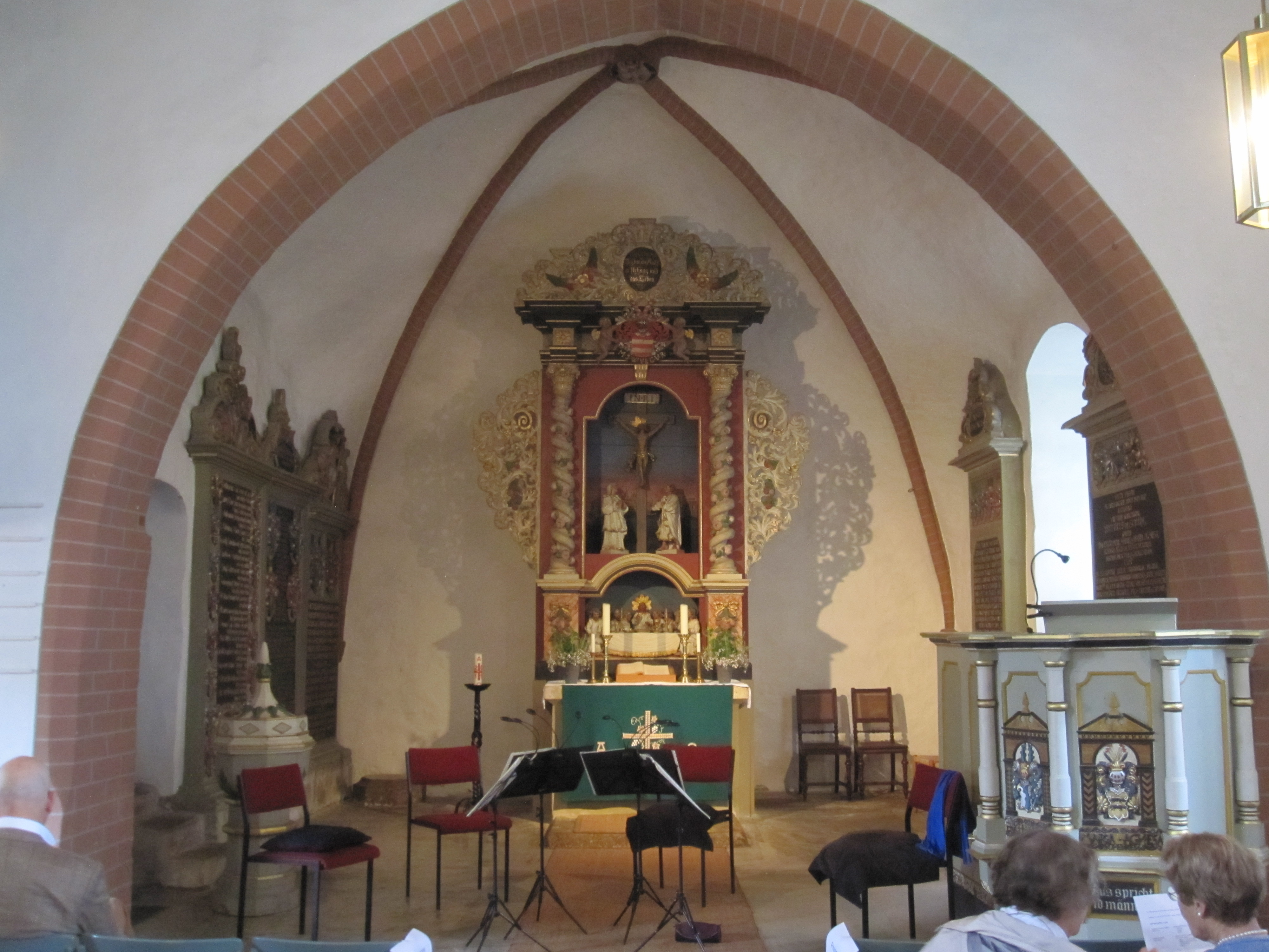 Lenthe, a small village, now part of Gehrden, Germany, Interior of the “Church of 10000 Knights”.